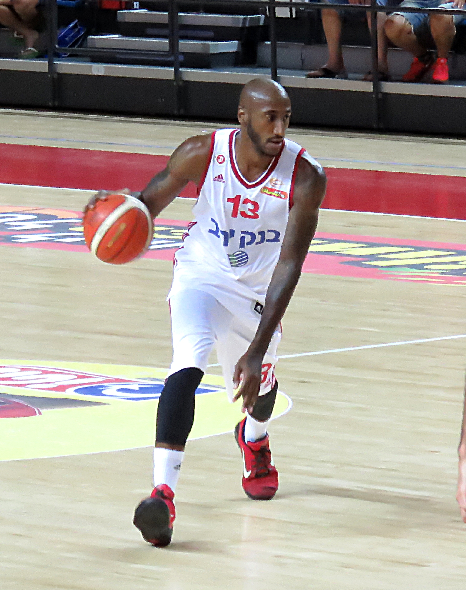 Hapoel Tel Aviv vs. Hapoel Jerusalem, 25 September, 2015